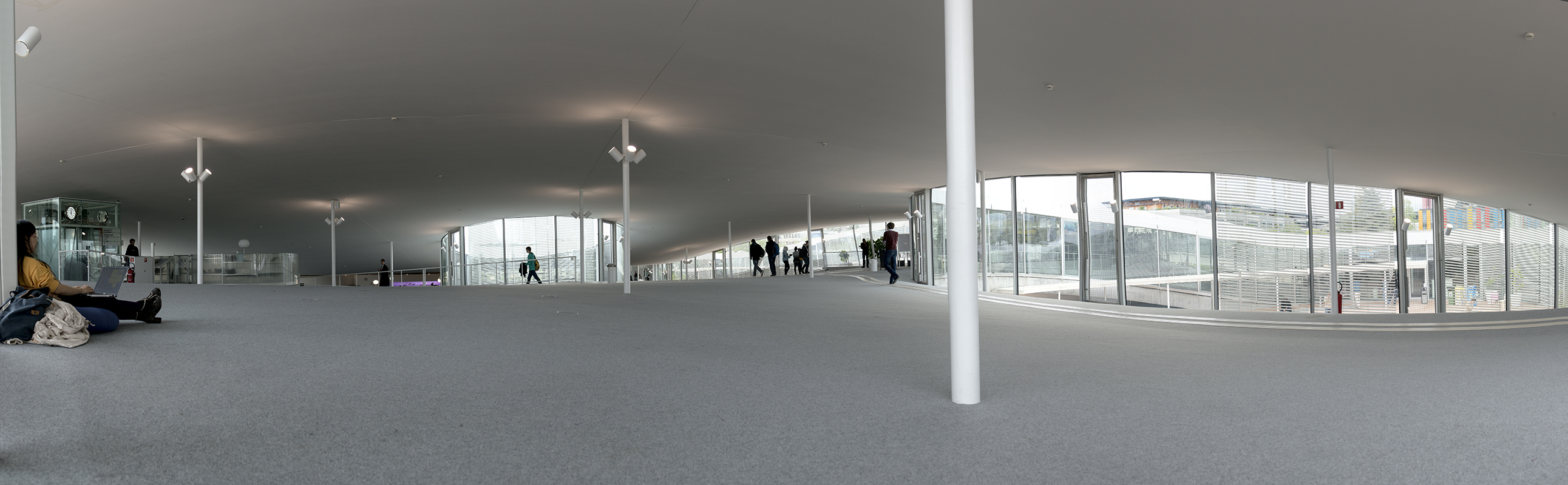 inside University Lausanne, Rolex Learning Center (designed by SANAA)